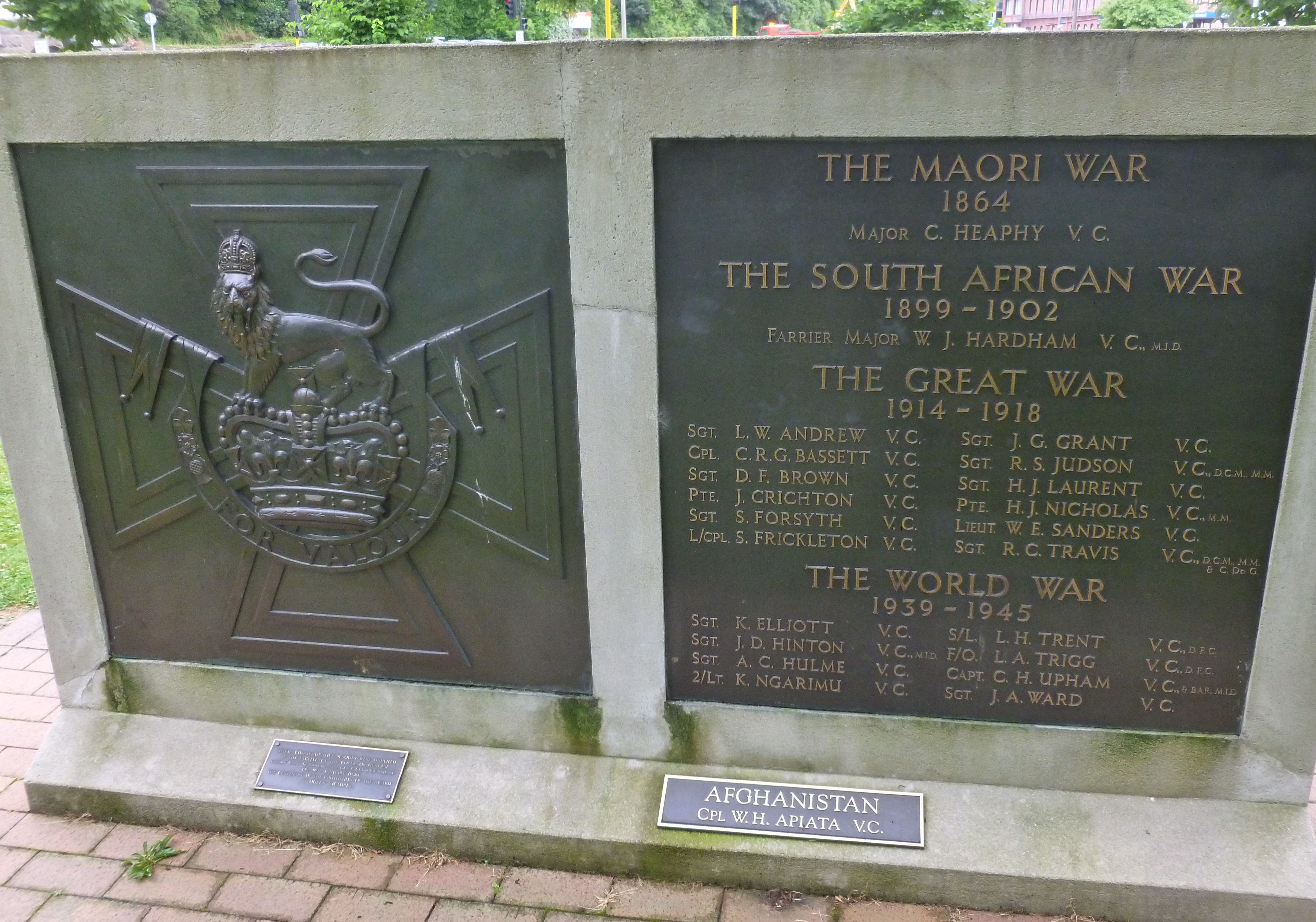 Victoria Cross plaque, Queen's Gardens, Dunedin. Showing the addition of the only New Zealand Victoria Cross yet given.